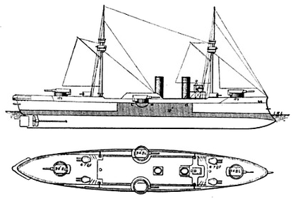 Line-drawing of the Chilean battleship Capitán Prat.